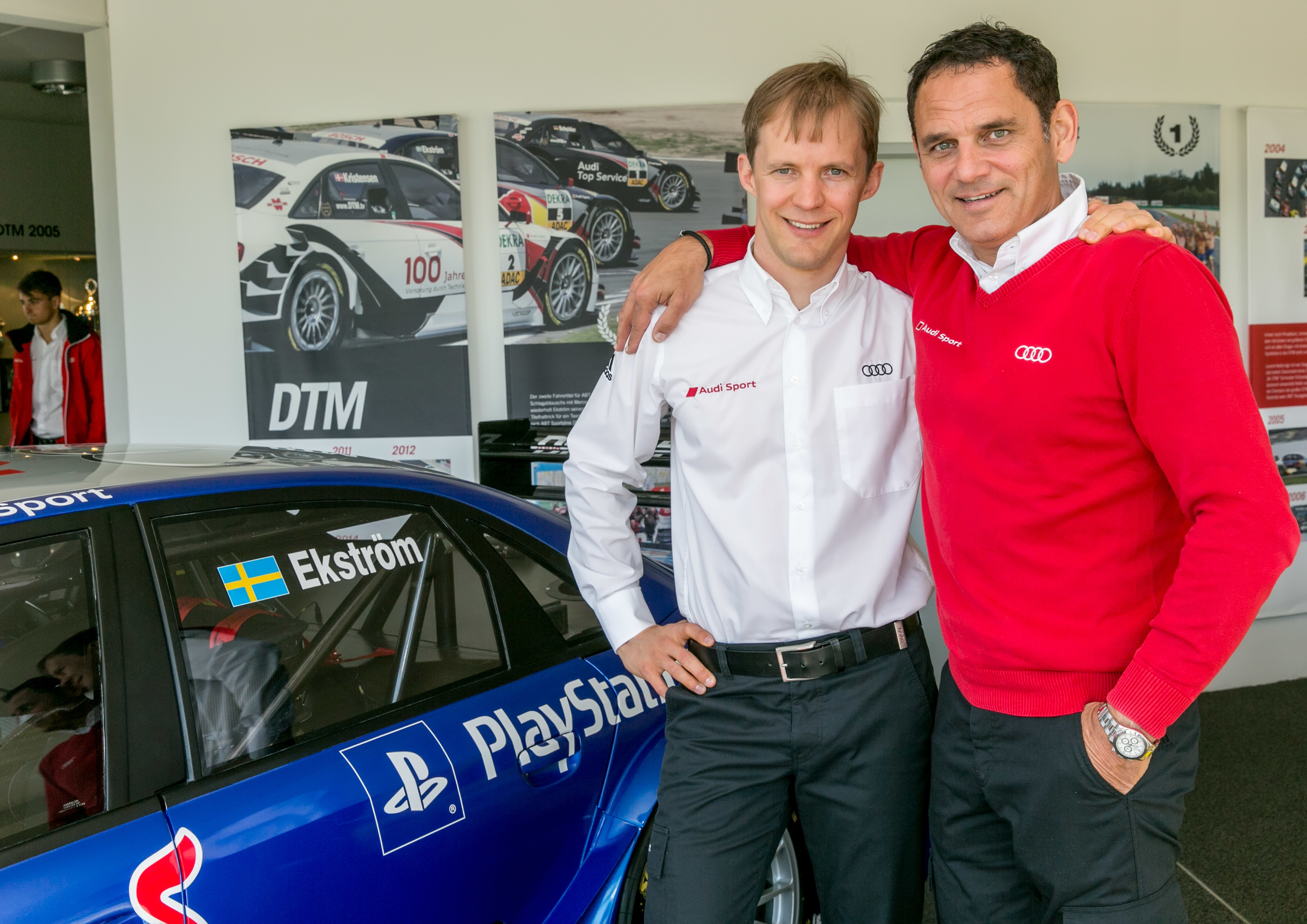 Audi Communications Motorsport ### free of charge for press purpose only